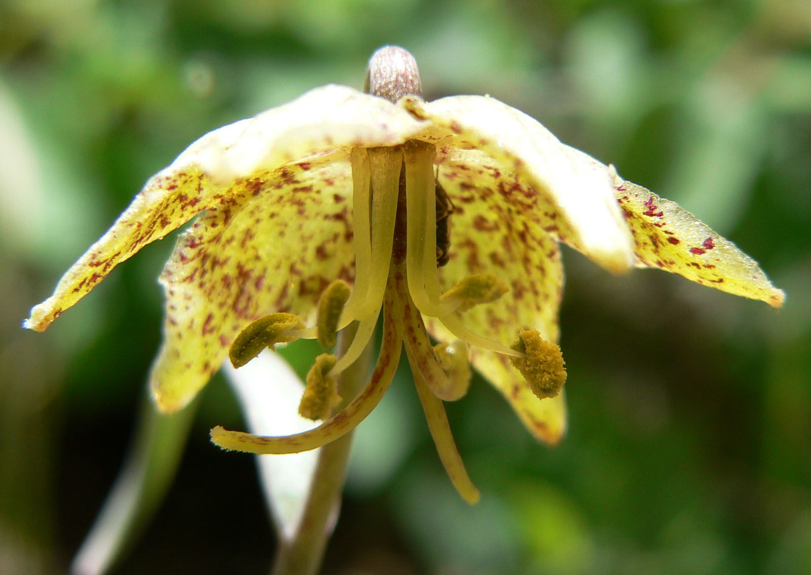 Fritillaria atropurpurea in forest at the Cathedral Rock/Little Falls trailhead, Kyle Canyon, Spring Mountains, southern Nevada (elev. about 2300 m)